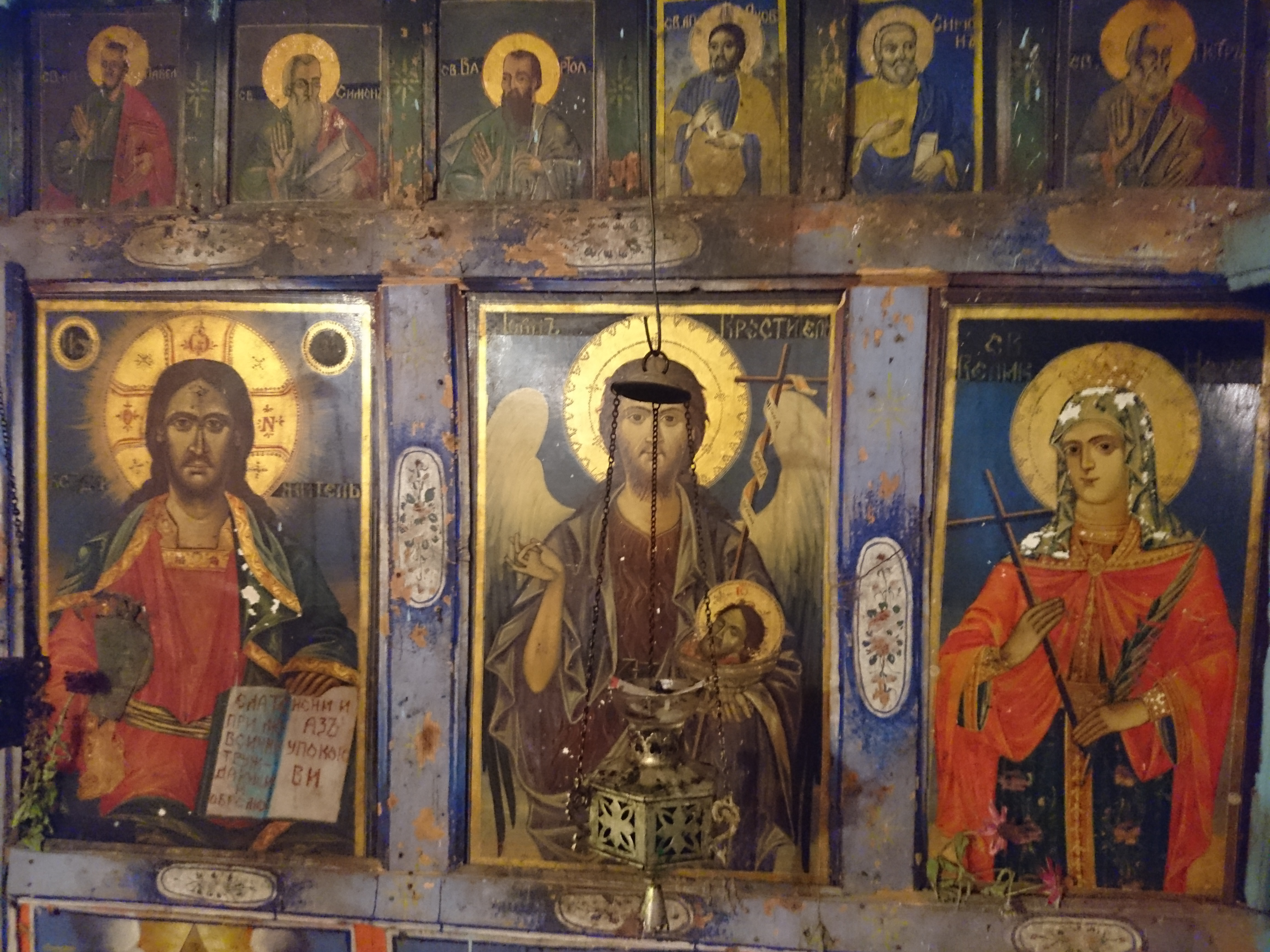 Part of the iconostasis of St. Petka Church in Doleni, Southwestern Bulgaria